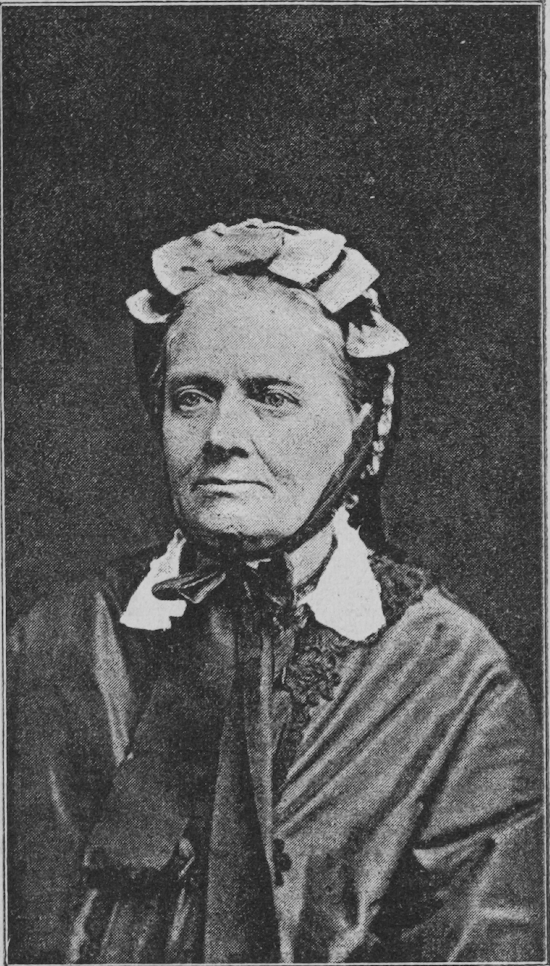 Portrait of Eleonora Šomková (1817 - 1891), nicknamed "Lori", fiancee of poet Karel Hynek Mácha (1810 - 1836)Original caption above the photo: "Tetinka Lori" ("Auntie Lori")